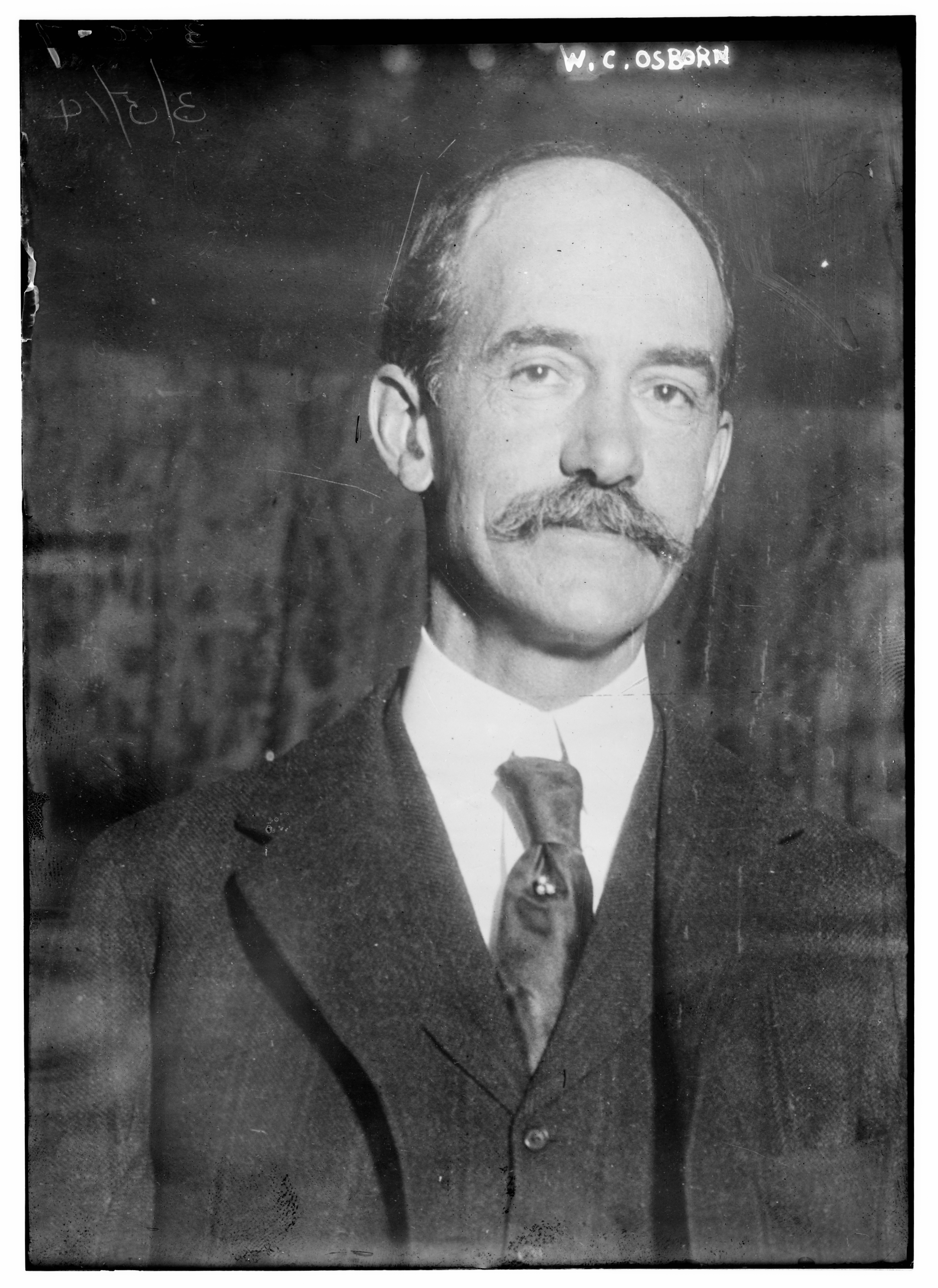 Bain News Service, publisher. William Church Osborn [between ca. 1910 and ca. 1915] 1 negative : glass ; 5 x 7 in. or smaller. Notes: Title from unverified data provided by the Bain News Service on the negatives or caption cards. Forms part of: George Grantham Bain Collection (Library of Congress). Format: Glass negatives. Repository: Library of Congress, Prints and Photographs Division, Washington, D.C. 20540 USA, General information about the Bain Collection is available at Persistent URL: Call Number: LC-B2- 3000-7